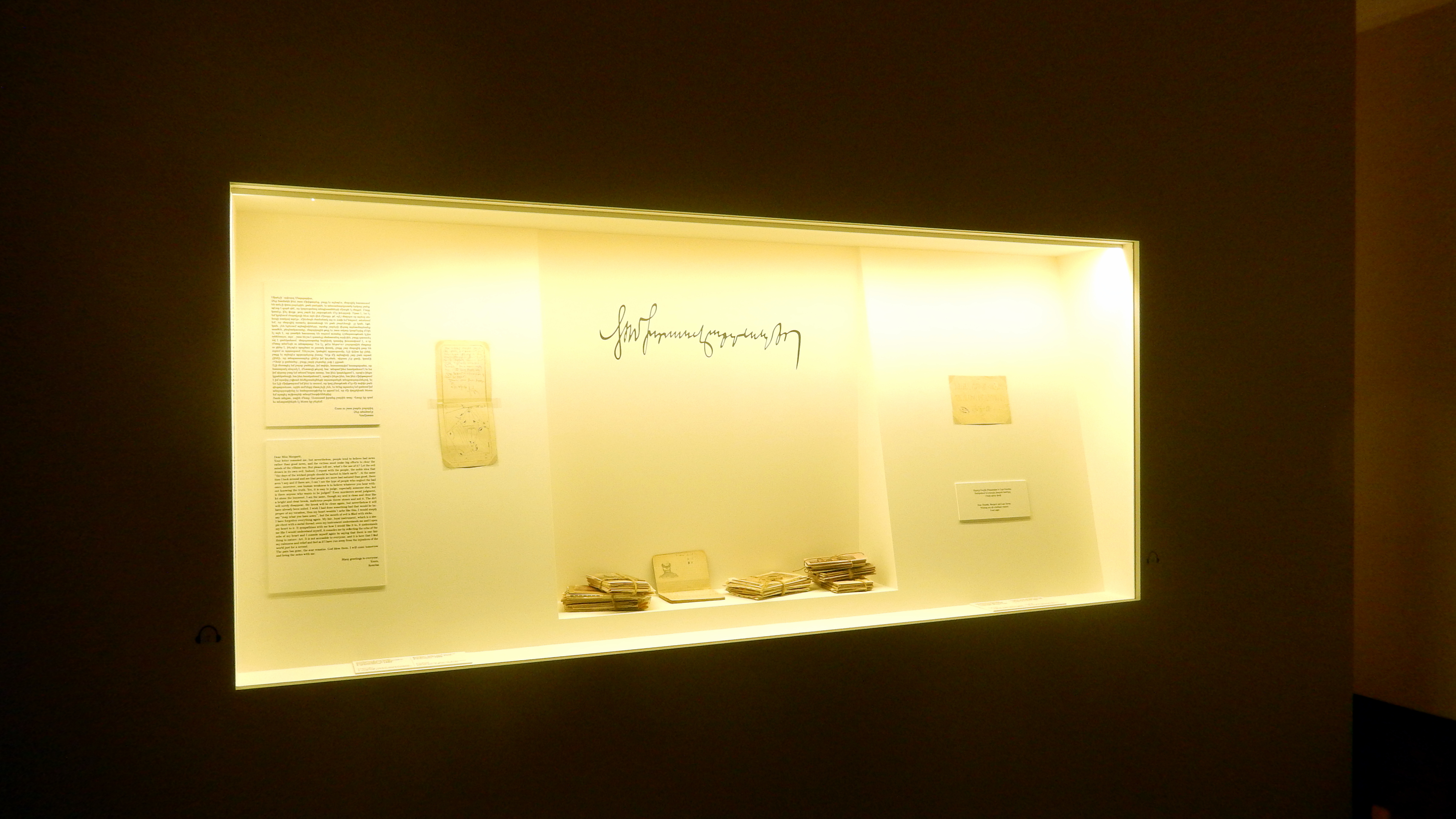 Komitas Museum, Yereva